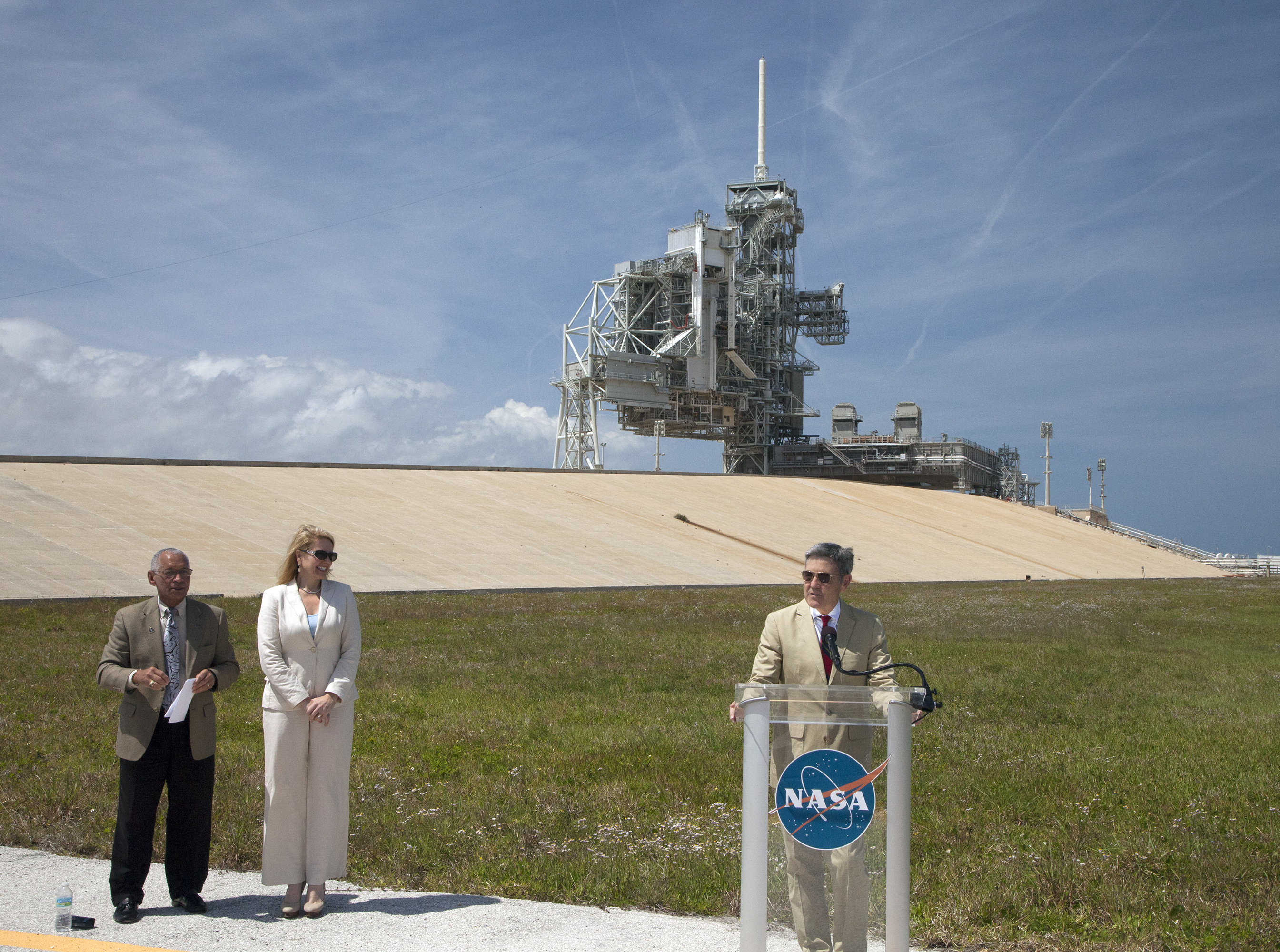 CAPE CANAVERAL, Fla. -- At Kennedy Space Center's Launch Pad 39A, center director Bob Cabana announces that NASA has just signed a lease agreement with Space Exploration Technologies SpaceX of Hawthorne, Calif., for use and operation of Launch Complex 39A. NASA Administrator Charlie Bolden, left, and Gwynne Shotwell, president and chief operating officer of SpaceX, look on. SpaceX will use Launch Complex 39A for rockets such as the Falcon Heavy, currently under development. Both launch pad 39A and 39B were originally built for the Apollo/Saturn V rockets that launched American astronauts on their historic journeys to the moon and later modified to support the 30-year shuttle program. Pad 39B is now being modified by NASA to support the Space Launch System SLS rocket boosting the Orion spacecraft part of the agency’s plan to explore beyond low-Earth orbit.